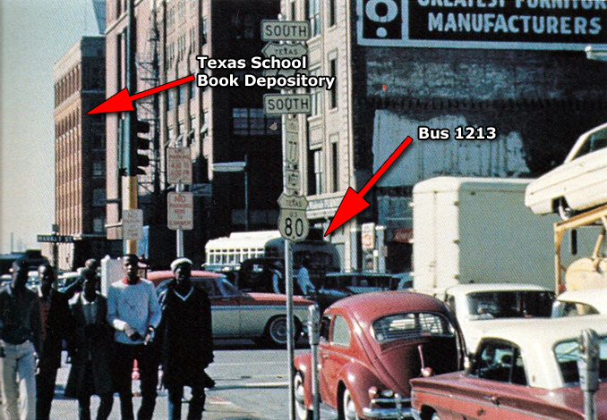 Picture of the Marsalis Street Bus 1213; according to the Warren Commission, Oswald is aboard at time of this photo. Oswald got out after four minutes: the bus got stuck in the traffic around Dealey Plaza. A cab took him to his rooming house where he arrived at 1:00 pm - only thirty minutes after the assassination. Photo appears to be taken from south side of 700 block of Elm Street (US 67 / 77 / 80) just east of Market Street.